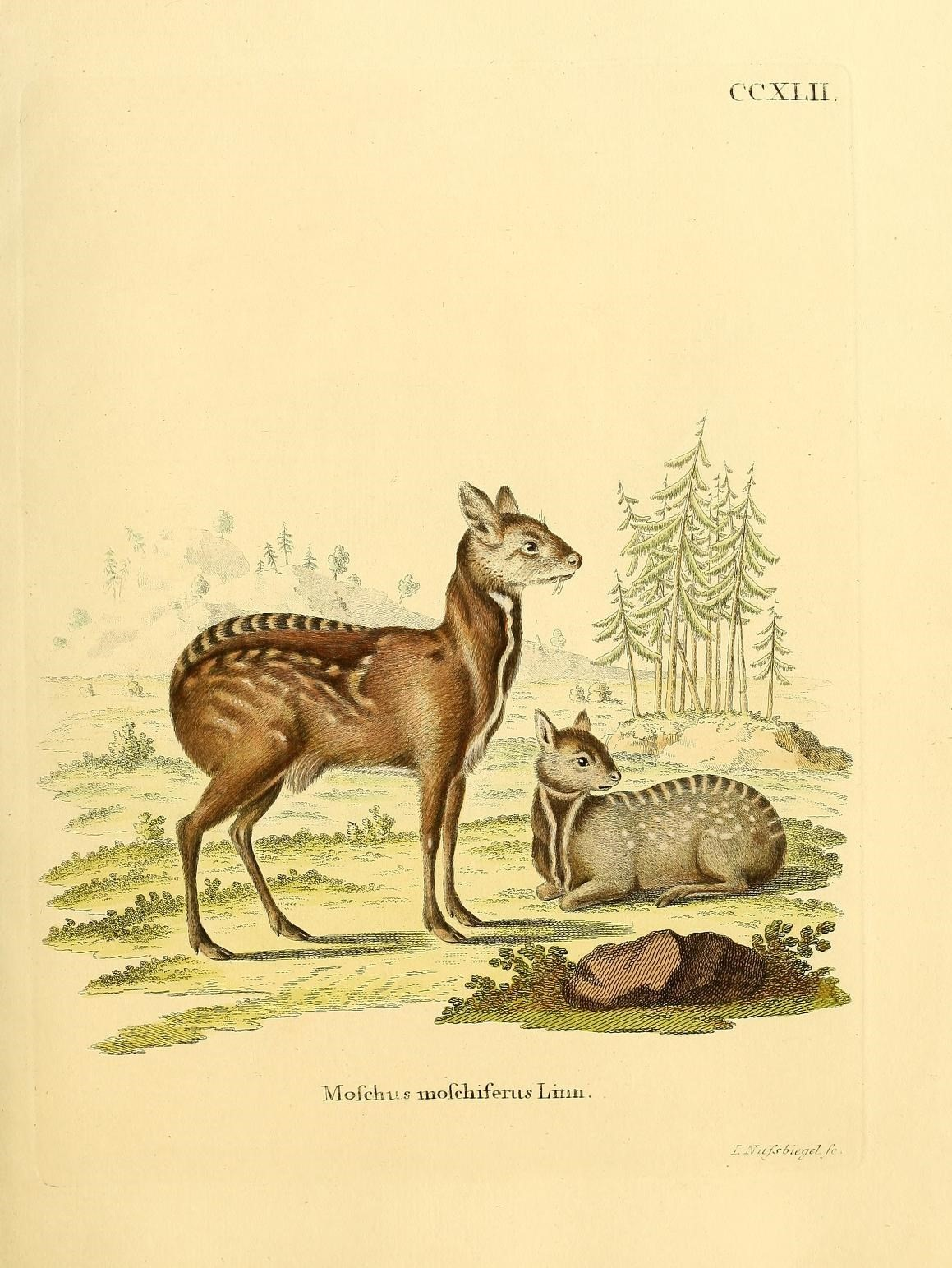 CCXLII Ivlofciru s inofcliifertis Linn . Zmifi-Meaelfc.